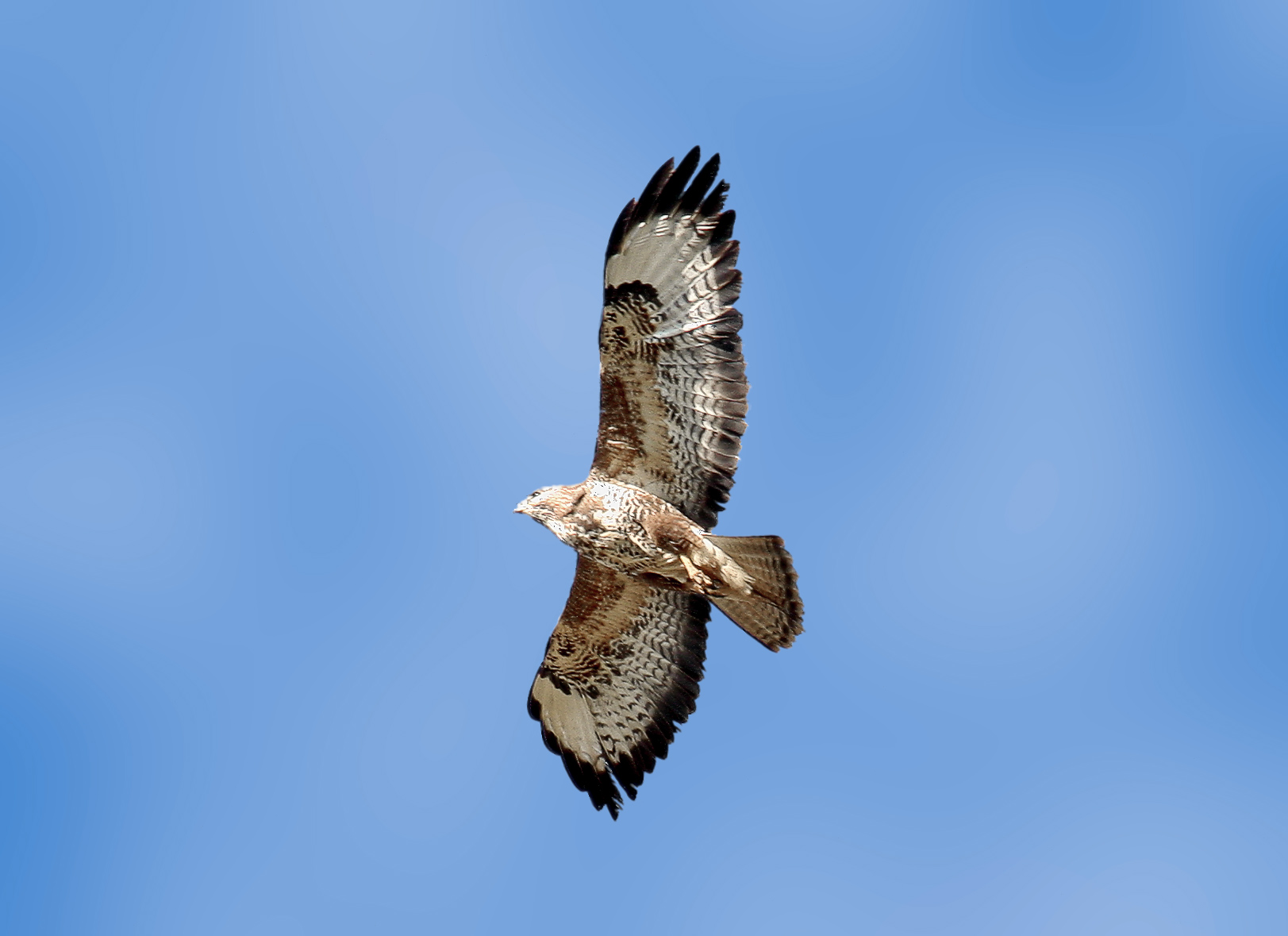 Common Buzzard